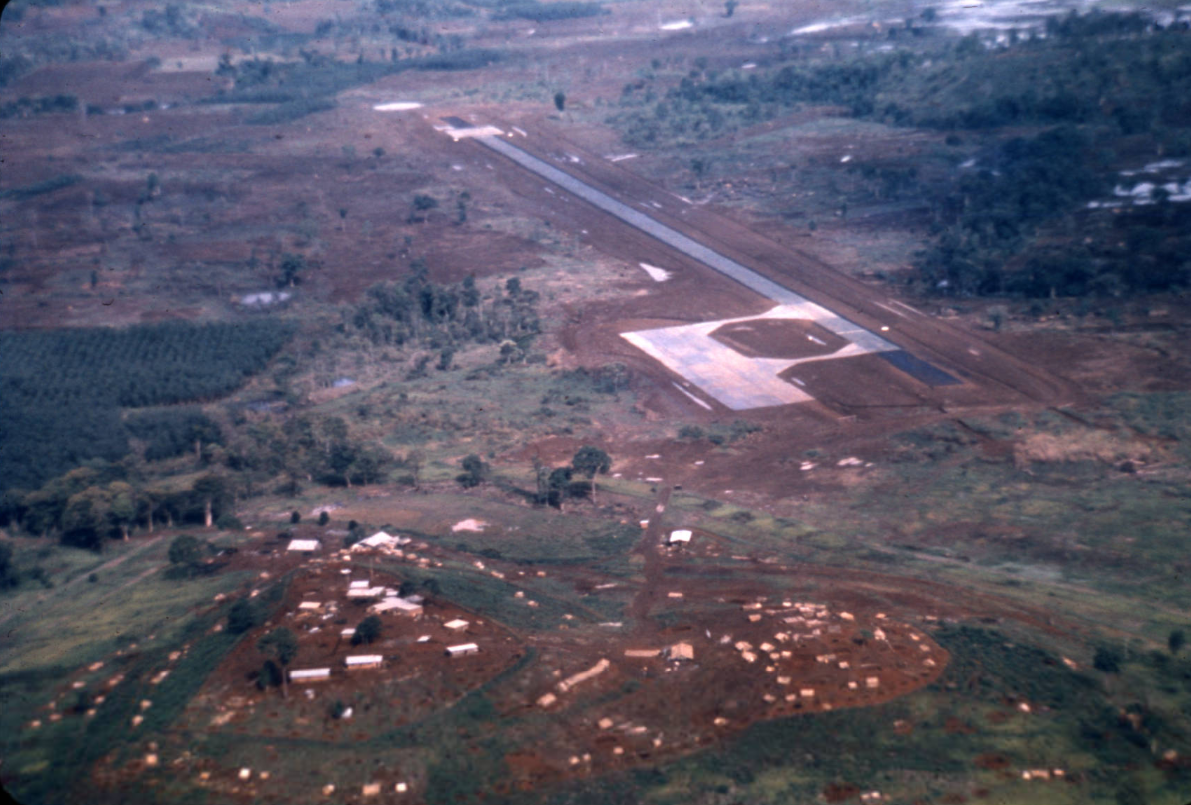 Duc Lap CIDG camp. During the period 3 February through 6 April C Company, 20th Engineer Battalion constructed 3 km of road into this camp and the 3500 FT T-17 runway which can be seen in the background. This mission was known as Operation Duchess.